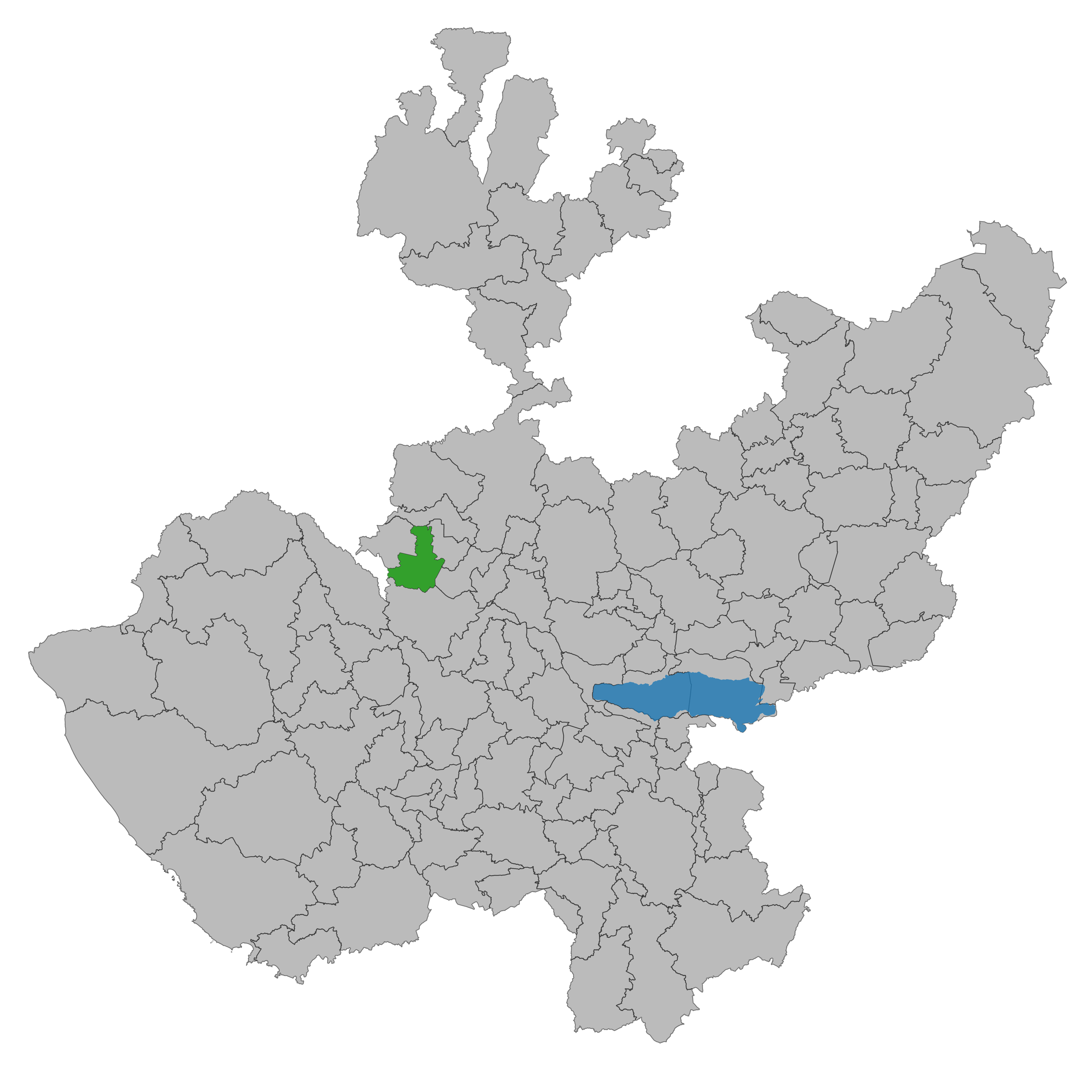 Municipality of Jalisco. Prepared with the software QGIS version 2.8.2 Wien & with information of SCINCE 2010 version 05/2013